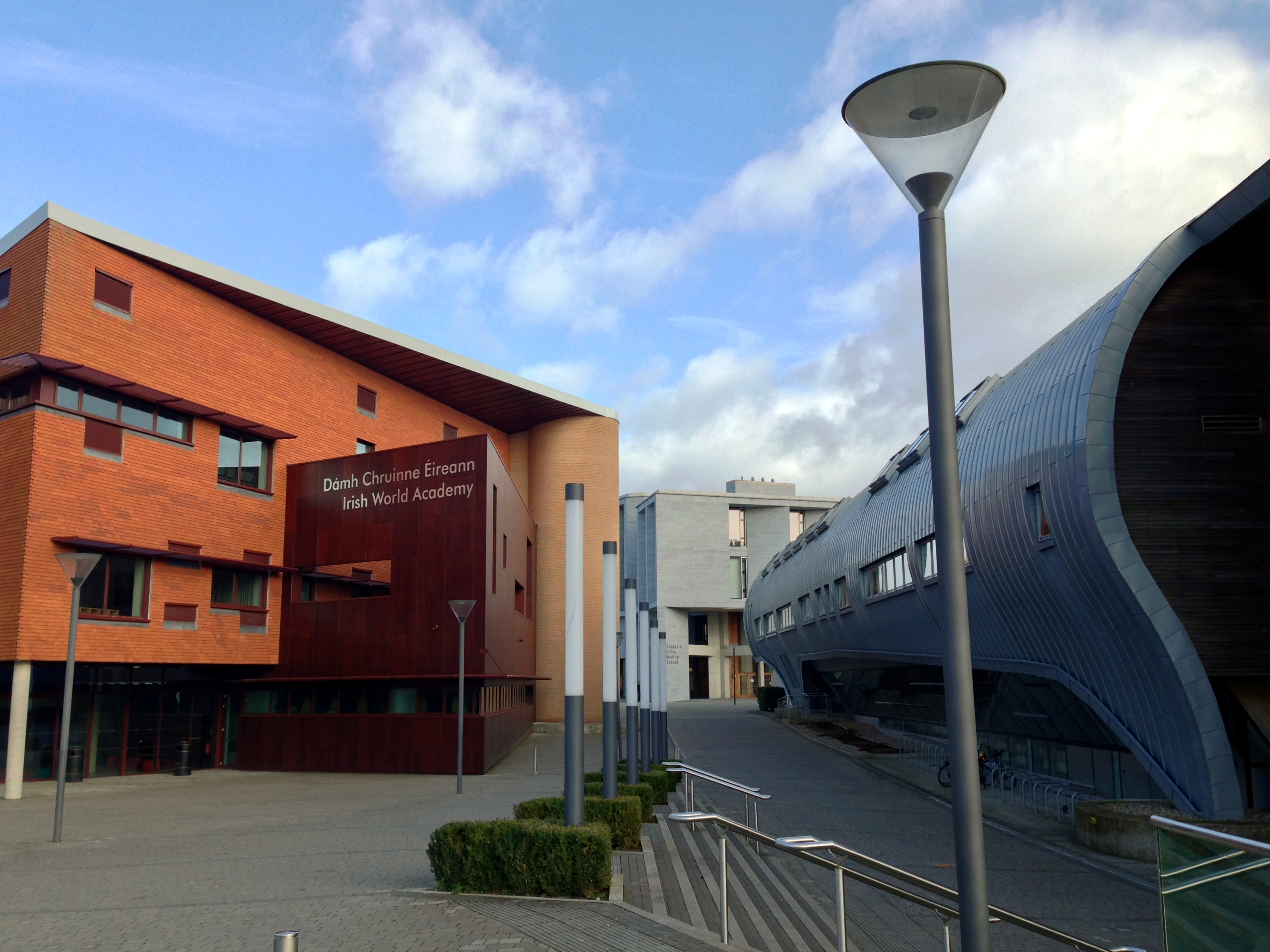 A photo of the Irish World Academy building on the left, the Health Sciences Building on the right and the Medical School Building in the distance located at the University of Limerick.